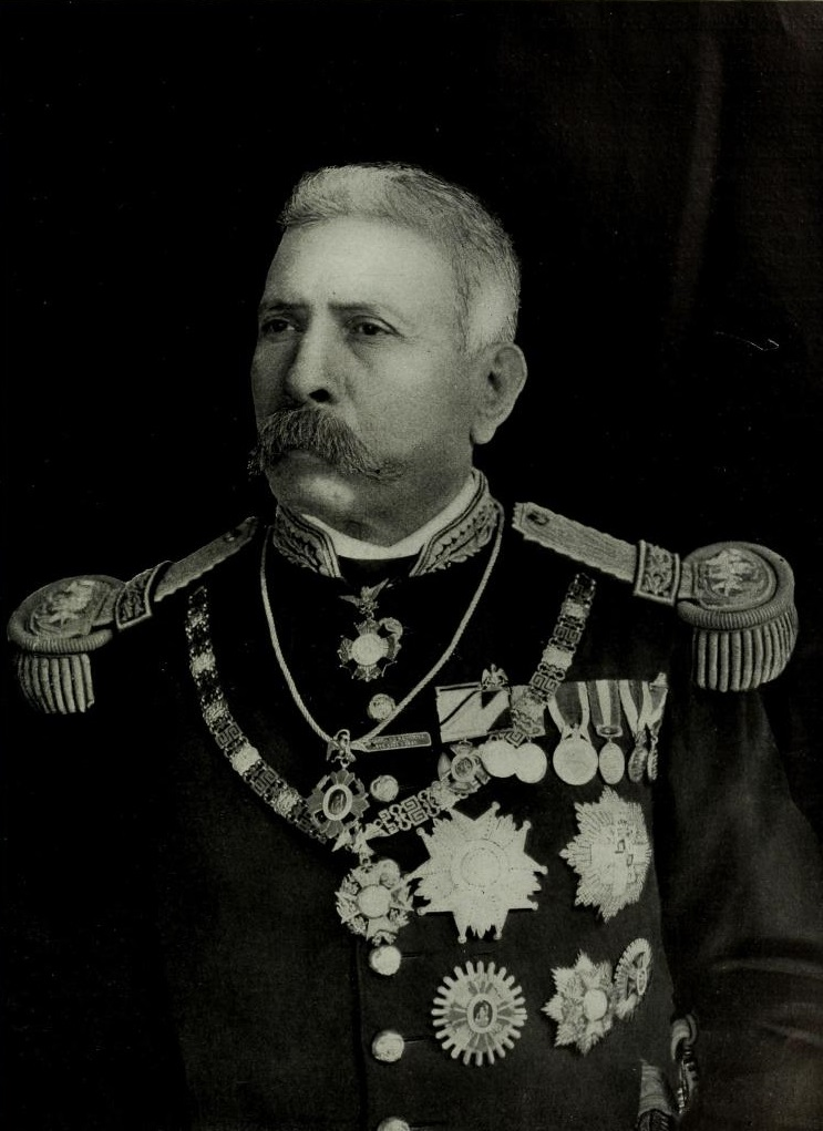 Portrait of Porfirio Díaz